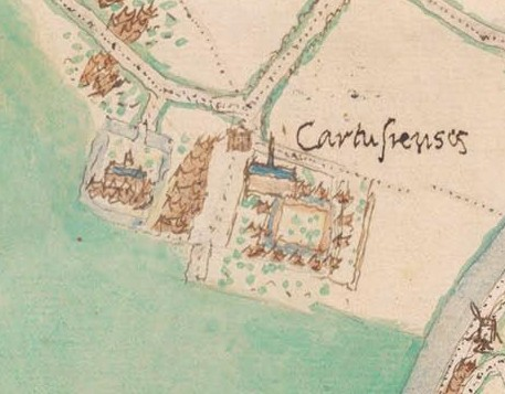 Koningsdal, Detail from map of Ghent by Jacob Van Deventer